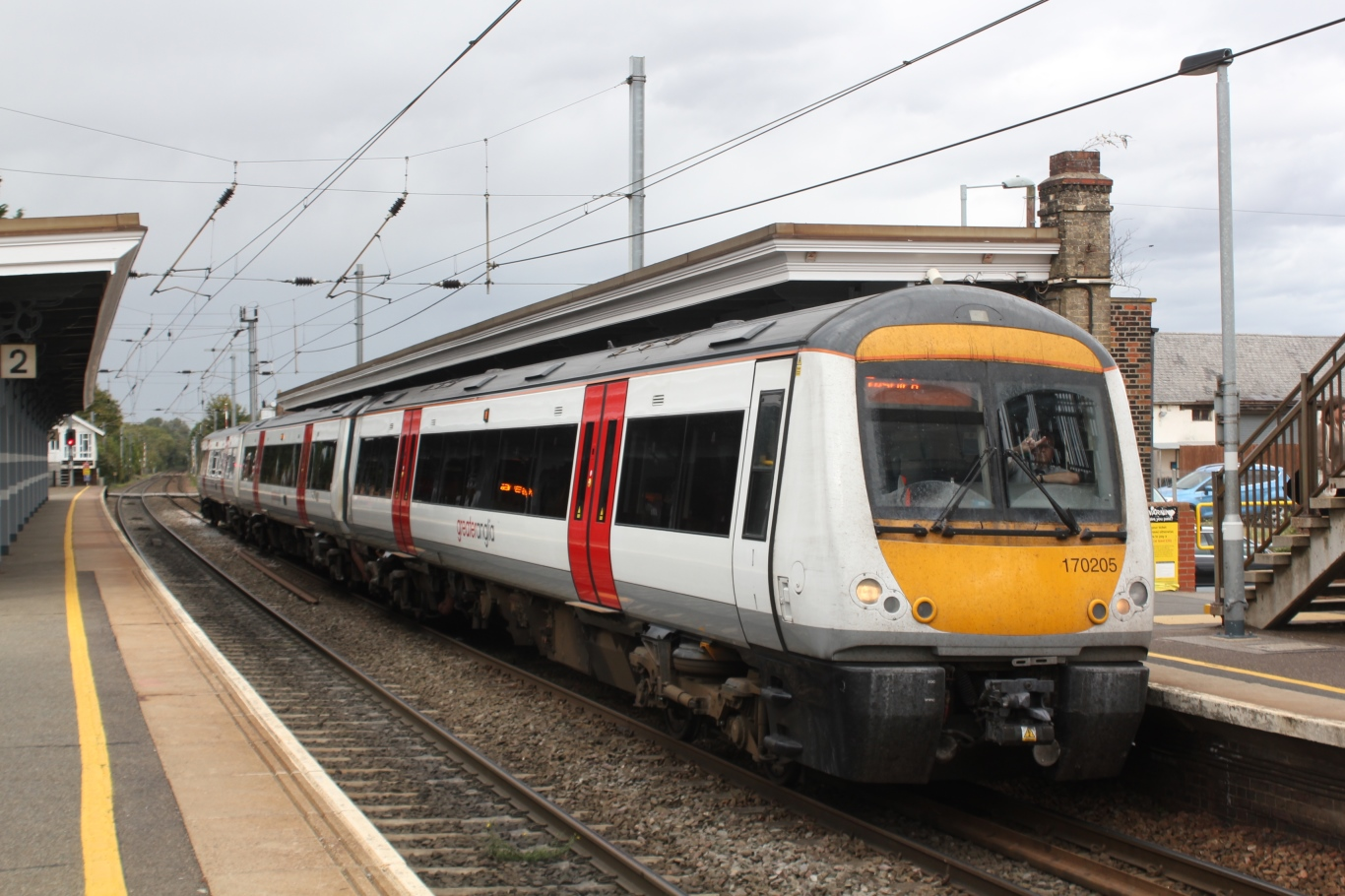 'Turbostar' 170205 calls at Stowmarket with an Abellio Greater Anglia service from Cambridge to Ipswich.